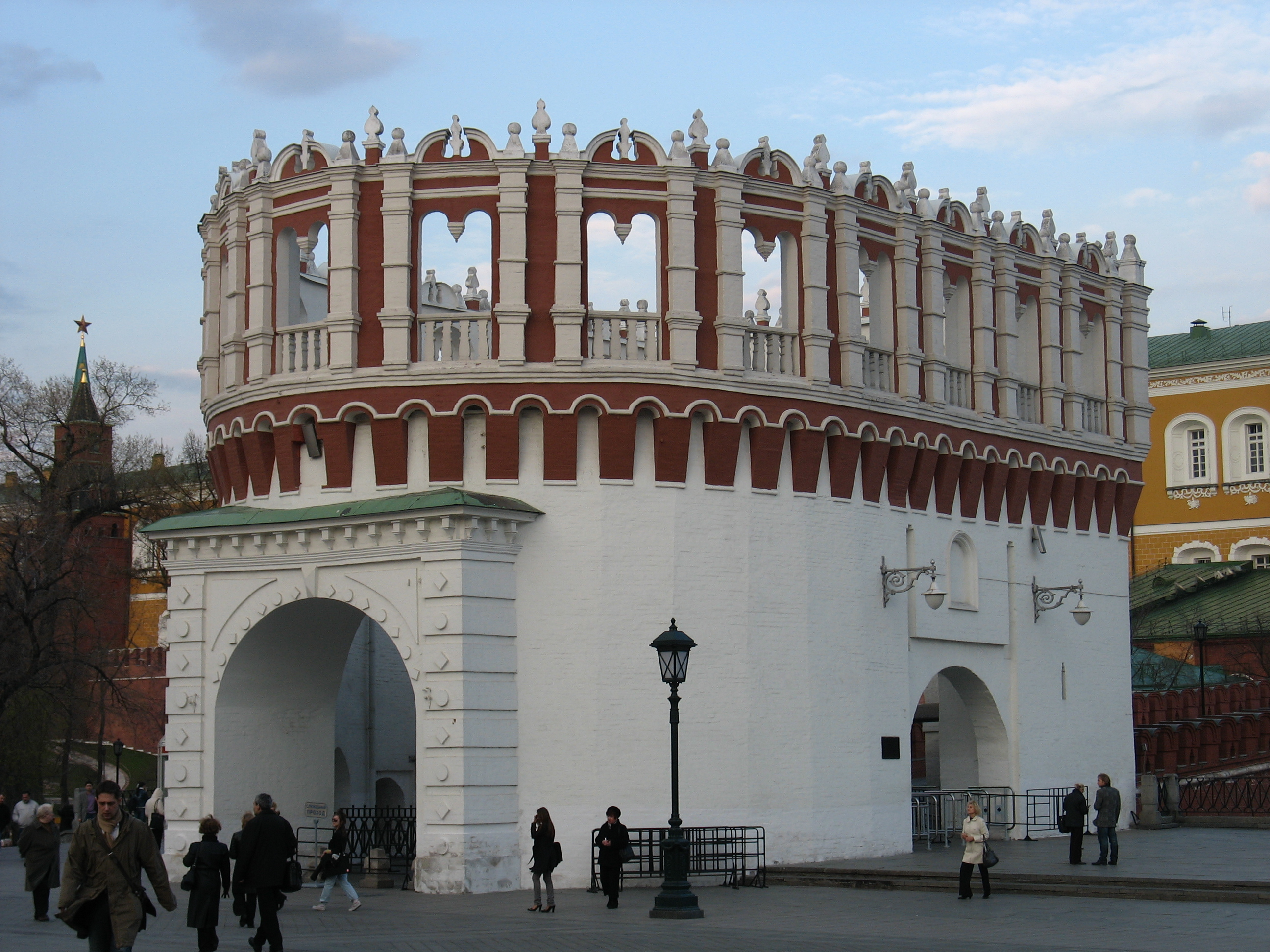 Kutafiya Tower of Moscow Kremlin